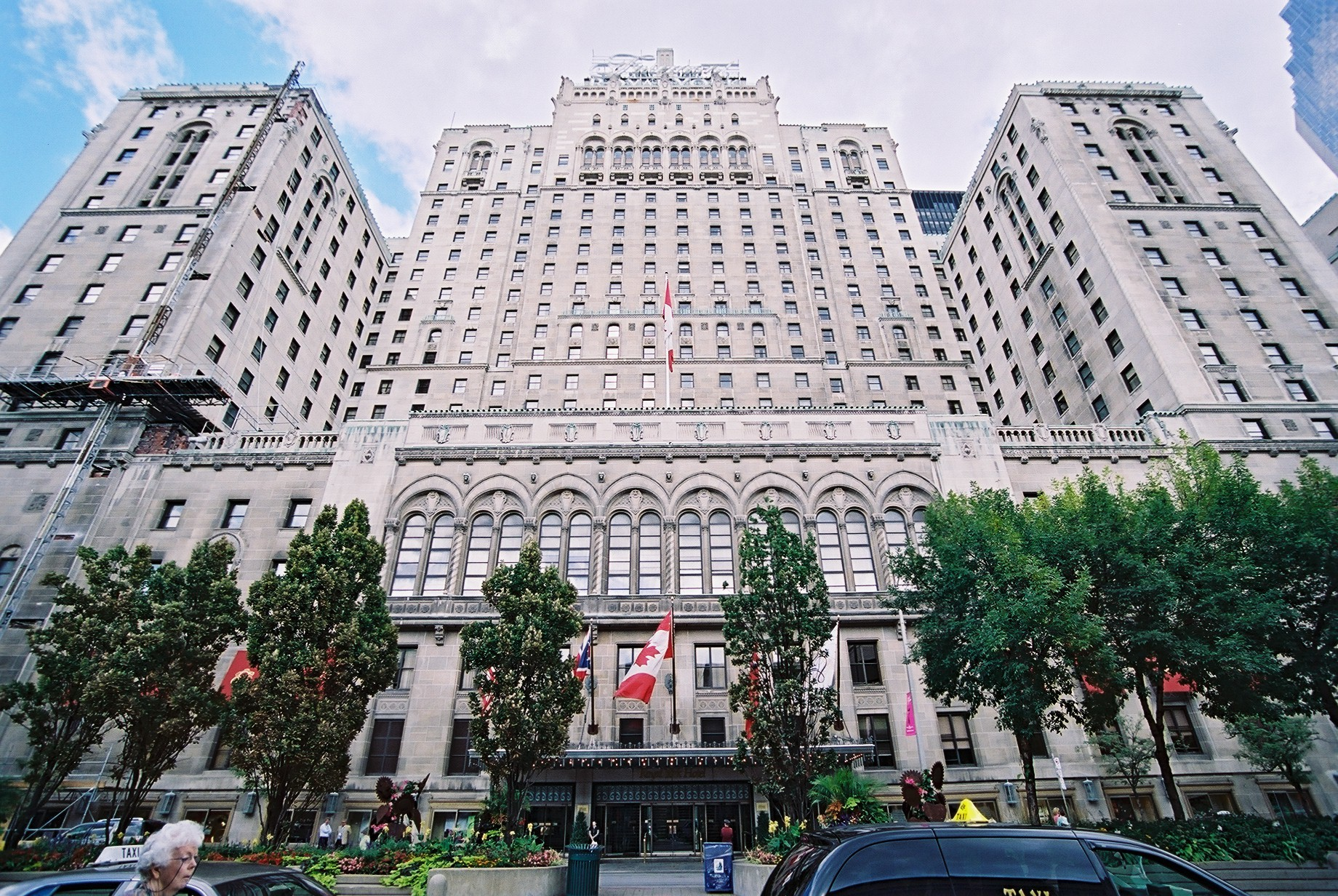 Taken with Nikon FM-10 with Sigma 15-30 f/3.5 using Kodak Ultra Colour 100 ASA